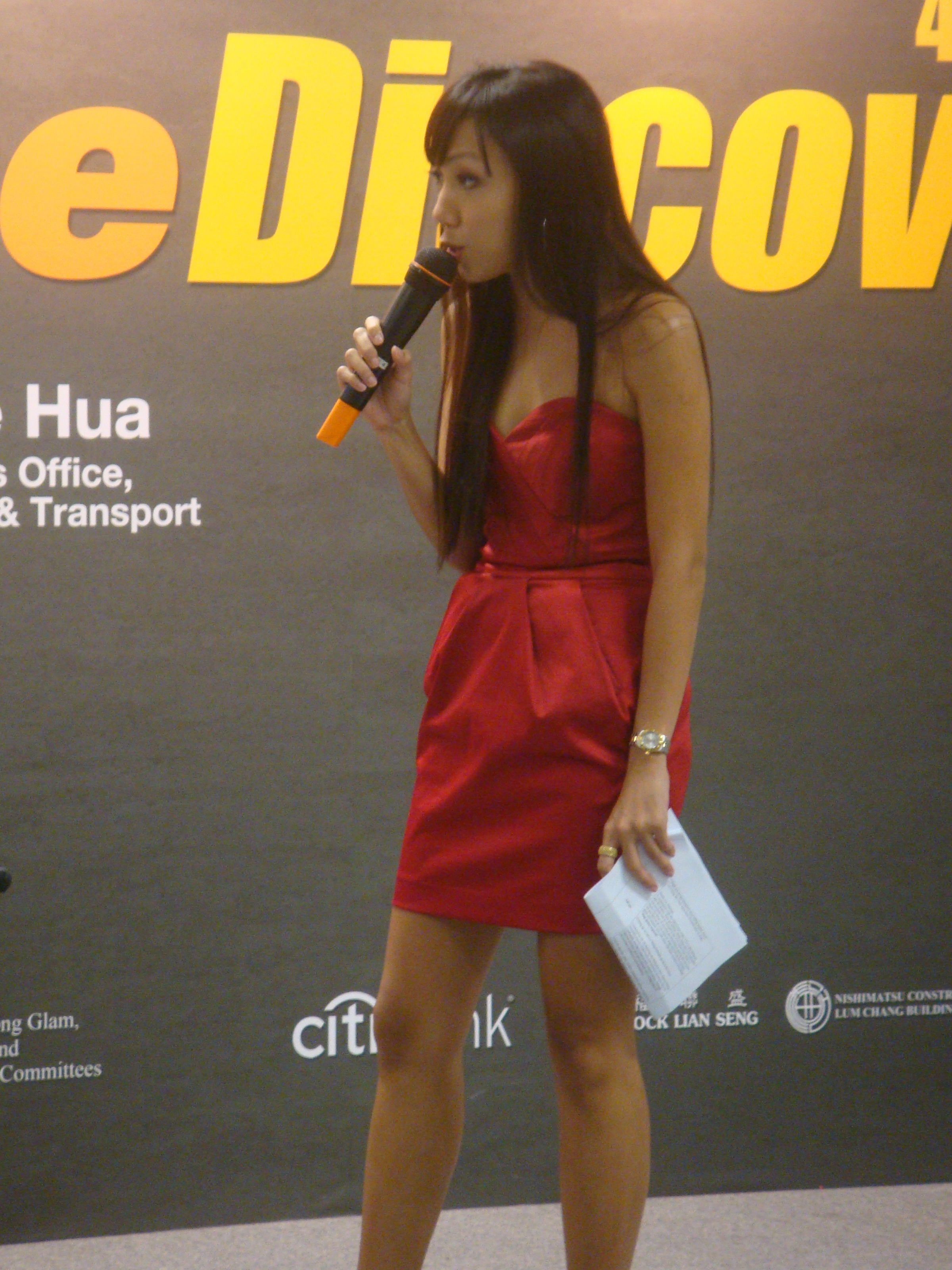 Jean Danker, Singapore DJ, hosting the children reading event at Esplanade Station, Circle Line Discovery Open House (Stage 1 & 2).